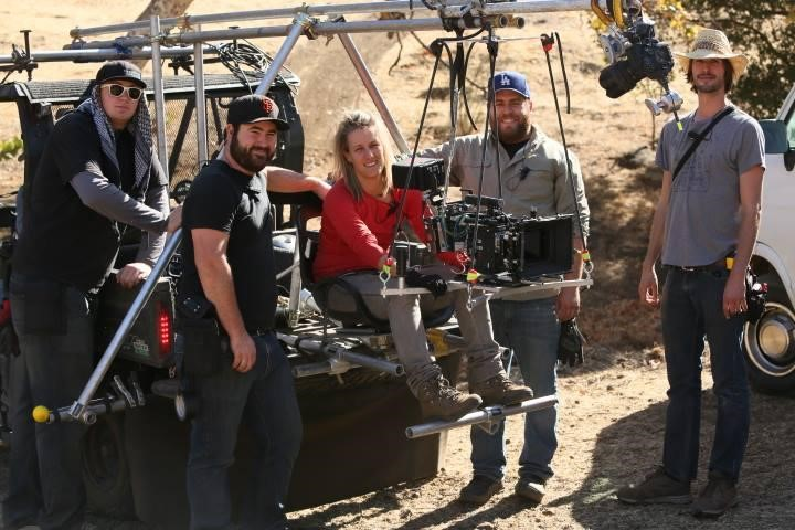 Female DP Nicola Marsh alongside Gaffer Michael Viera III and Key Grip Josh Smith